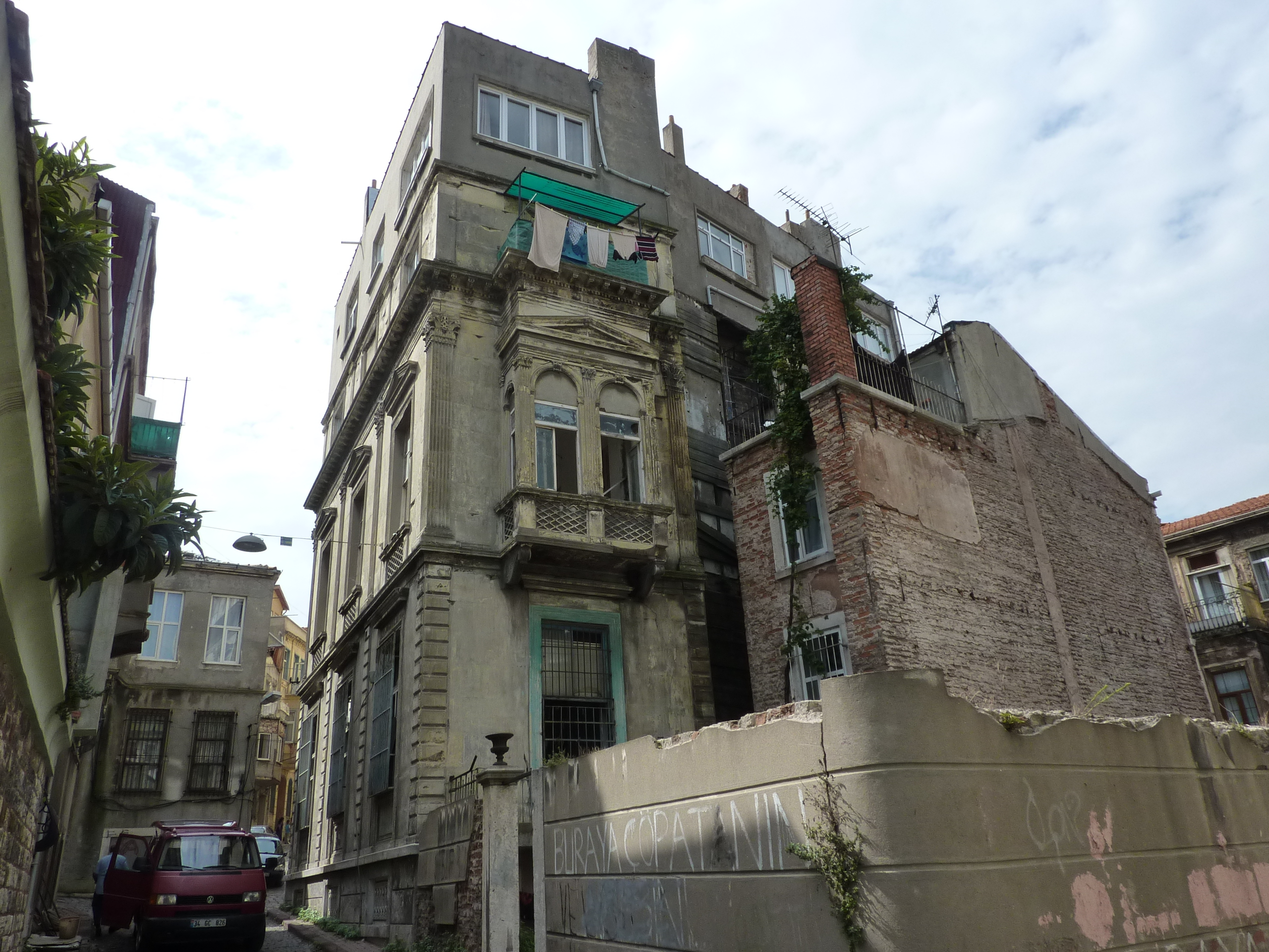 On the streets of Phanar.